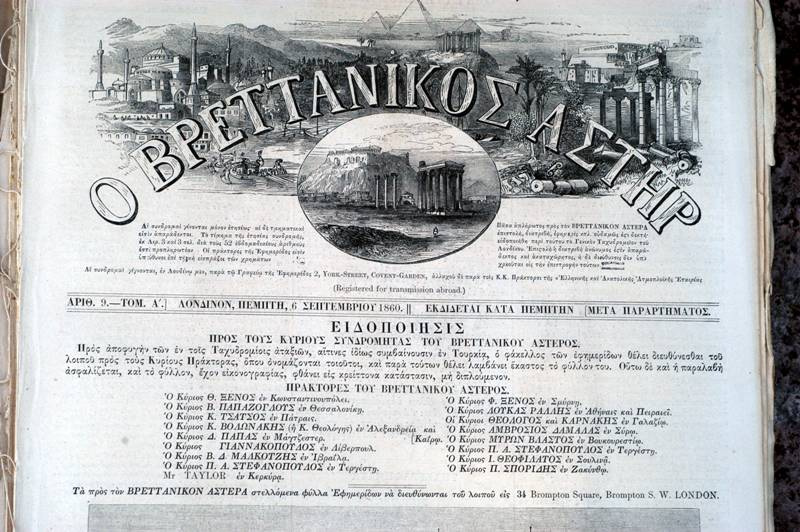 Vrettanikos Astir (British Star), Greek magazine published in London, first page issue